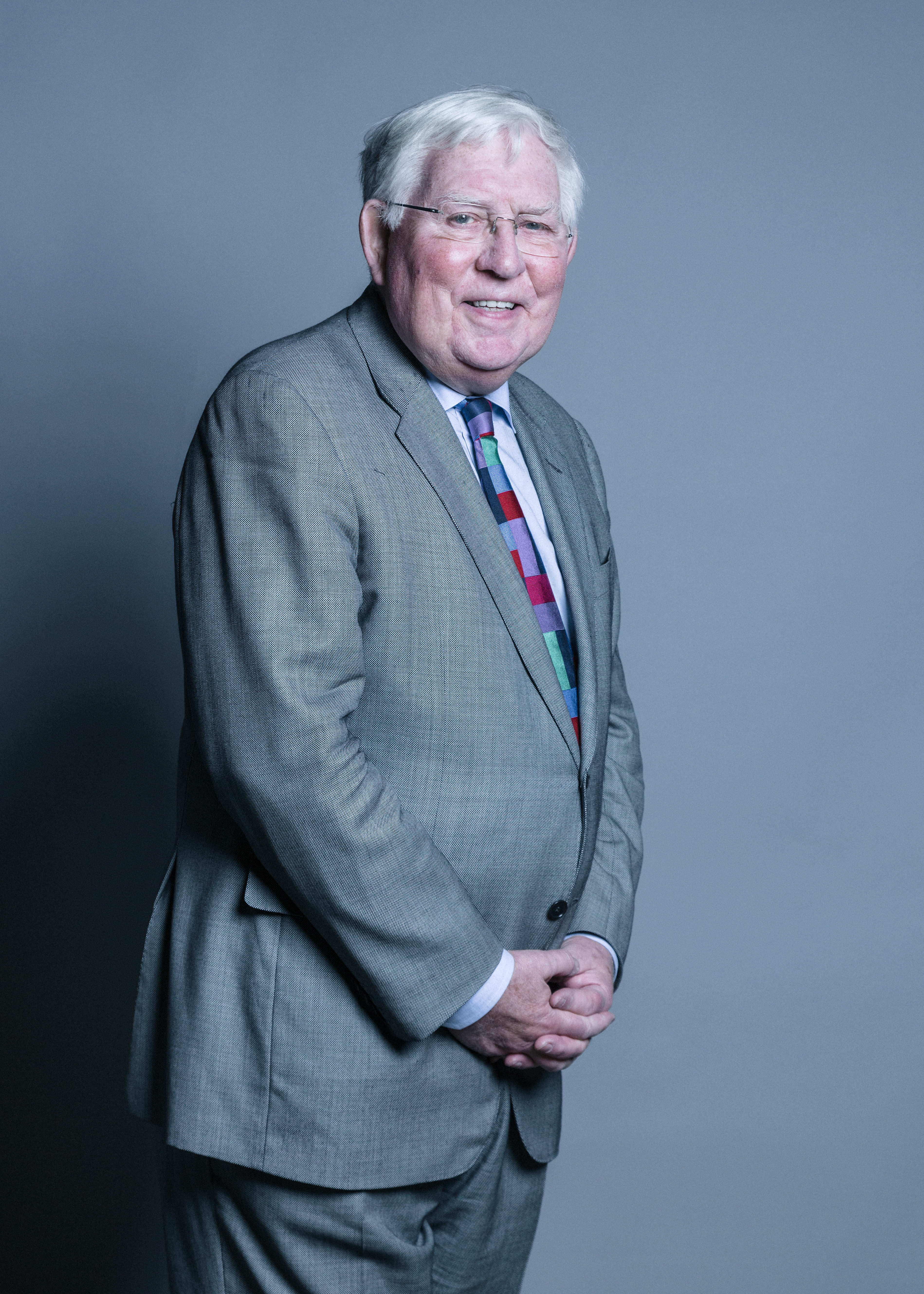 Official portrait of Lord O'Neill of Clackmannan